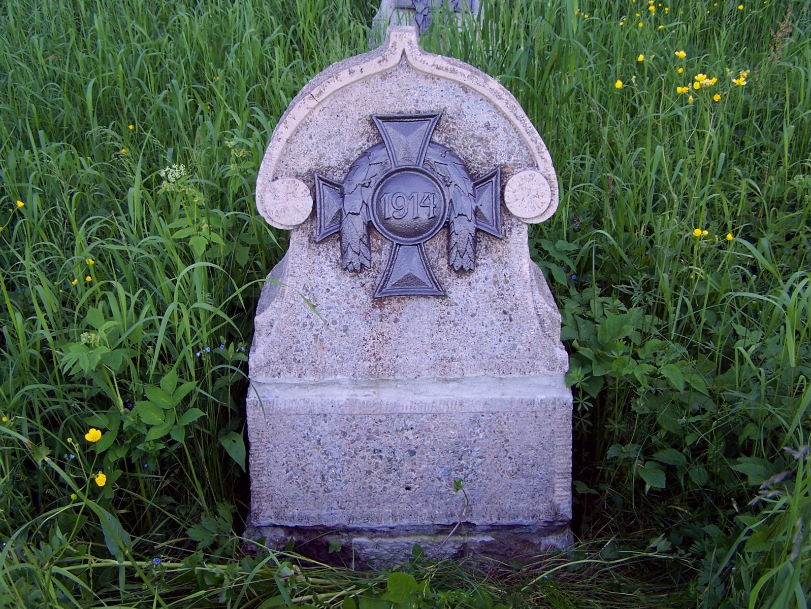 World War I Cemetery nr 369 - Stara Wieś-Golców